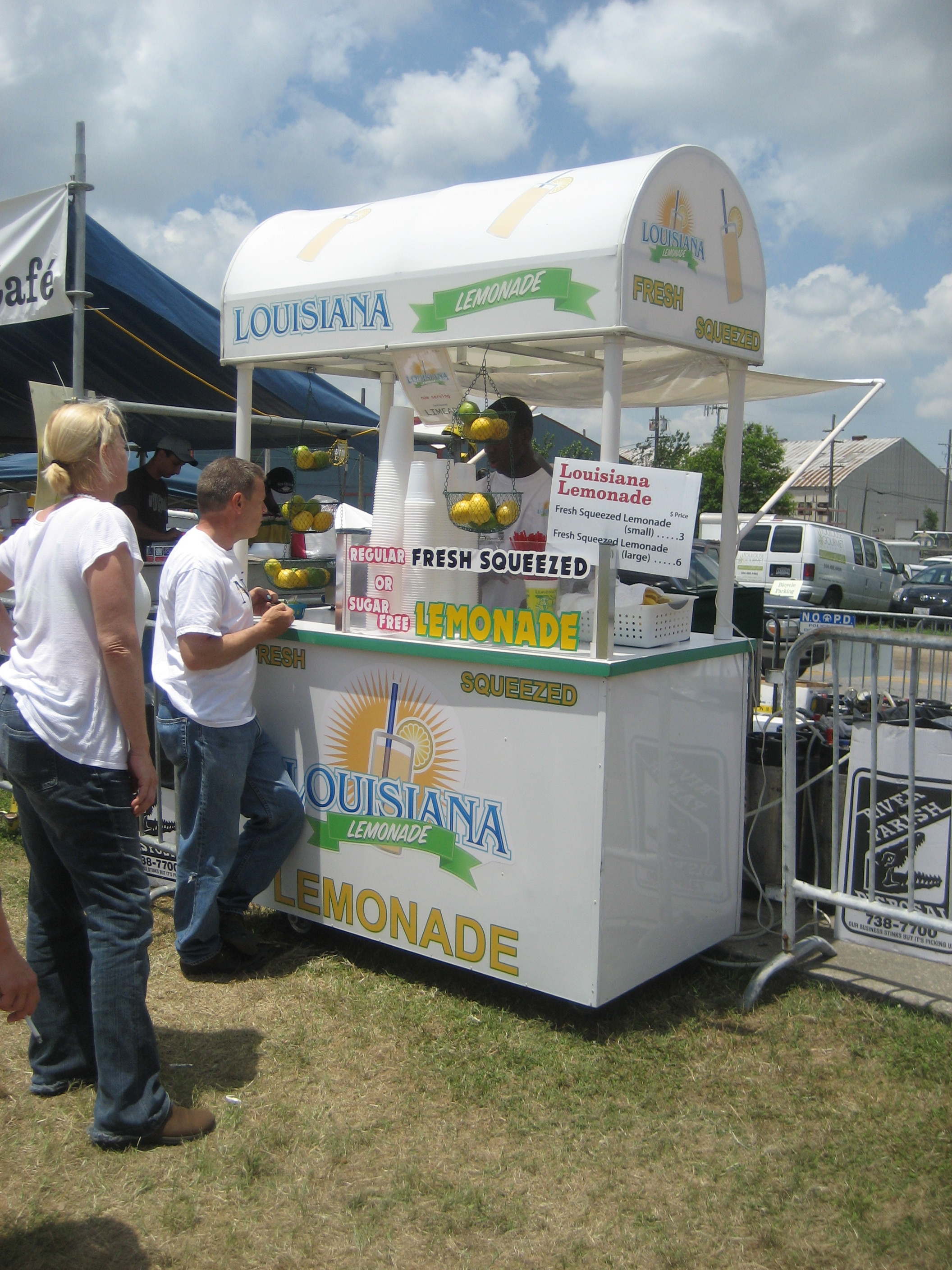 New Orleans. Mid-City Bayou Boogaloo event. Fresh lemonade vender.